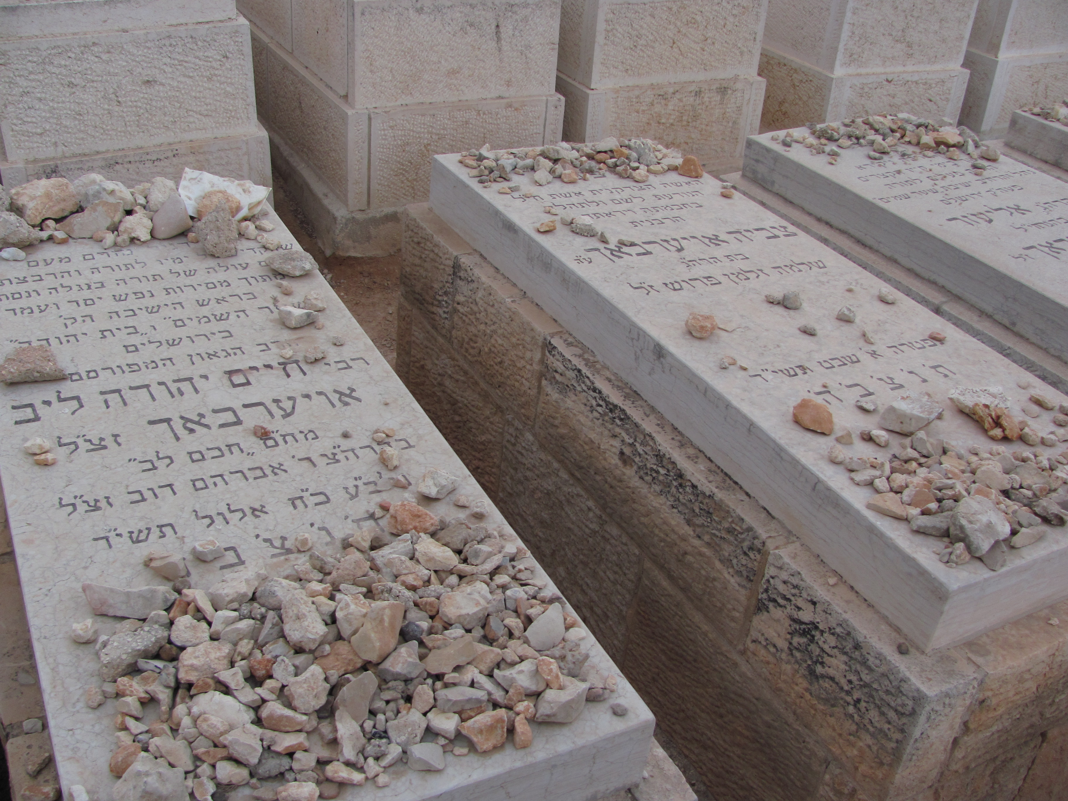 Graves of Rabbi Chaim Yehuda Leib Auerbach (left), his wife Tzivia (center), and son Eliezer (right) at Har HaMenuchot, Jerusalem, Israel.